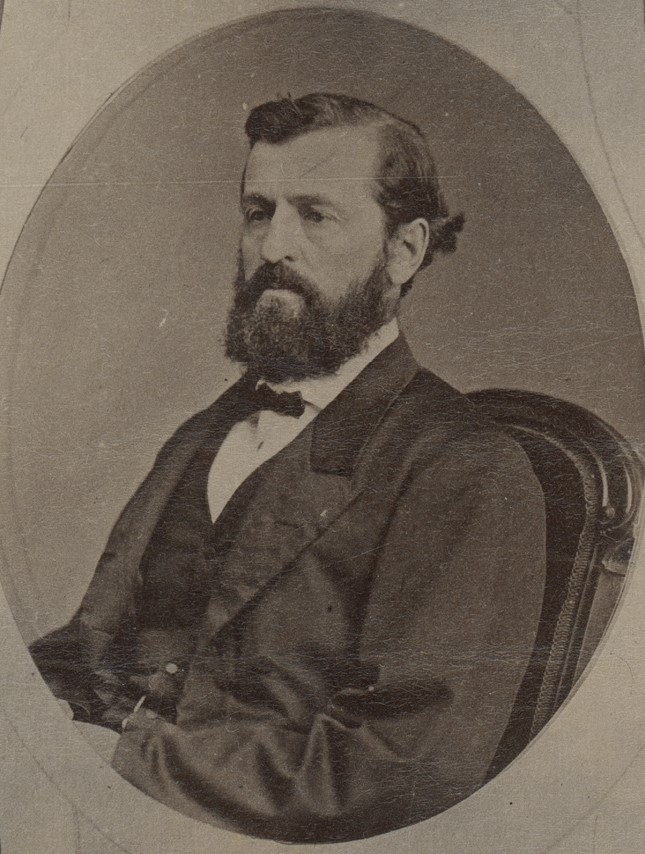 Portrait of James Boucaut.